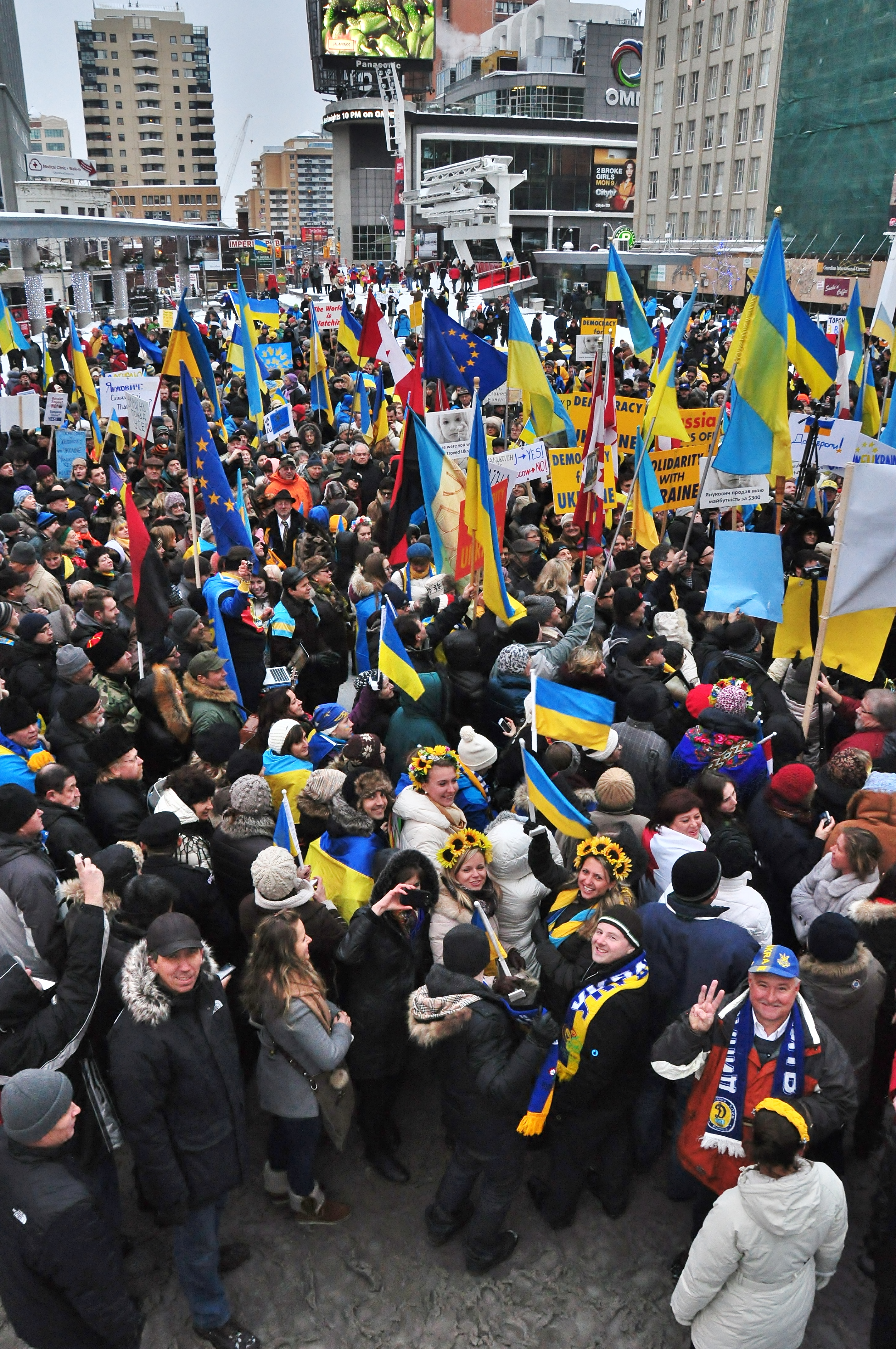 Ukrainian diaspora demonstrating solidarity with Ukrainian Euromaidan in Toronto, Canada. Dundas Square, Dec 15, 2013